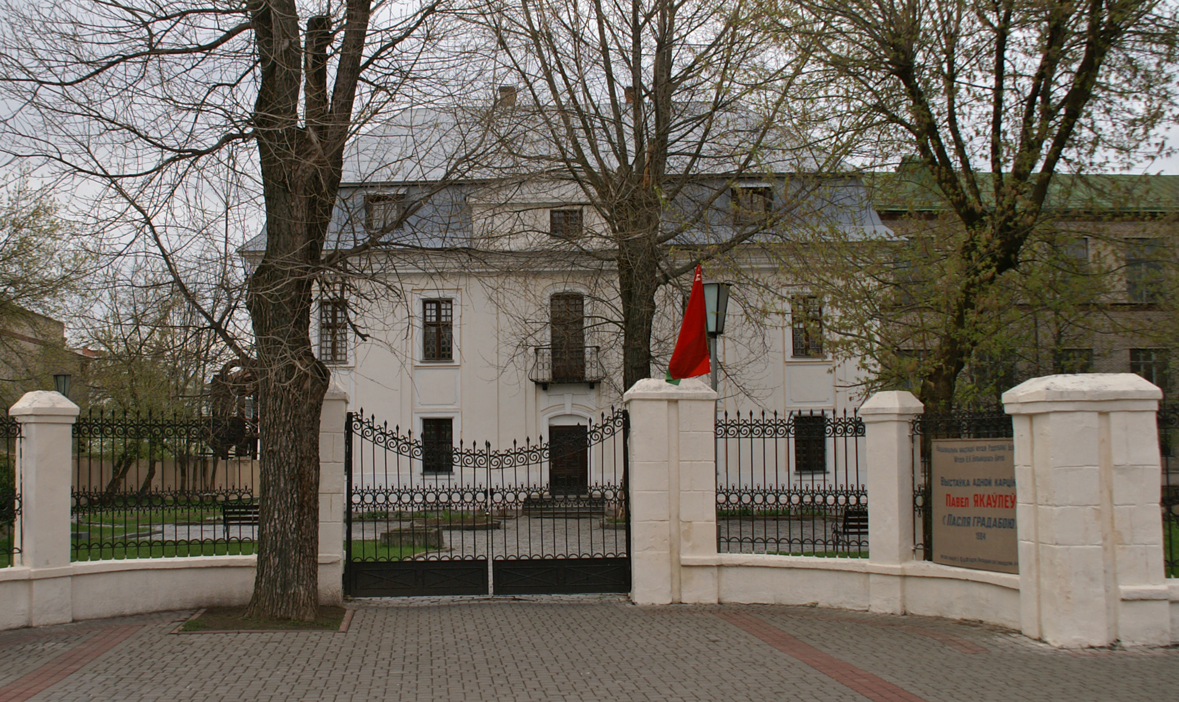 Former house of merchant Antoshkevich, Mogilev, BelarusБеларуская (тарашкевіца): Былы дом купца Анташкевіча. г. Магілёў This is a photo of Belarusian heritage monument. Reference number: 512Г000026 ( WLM)